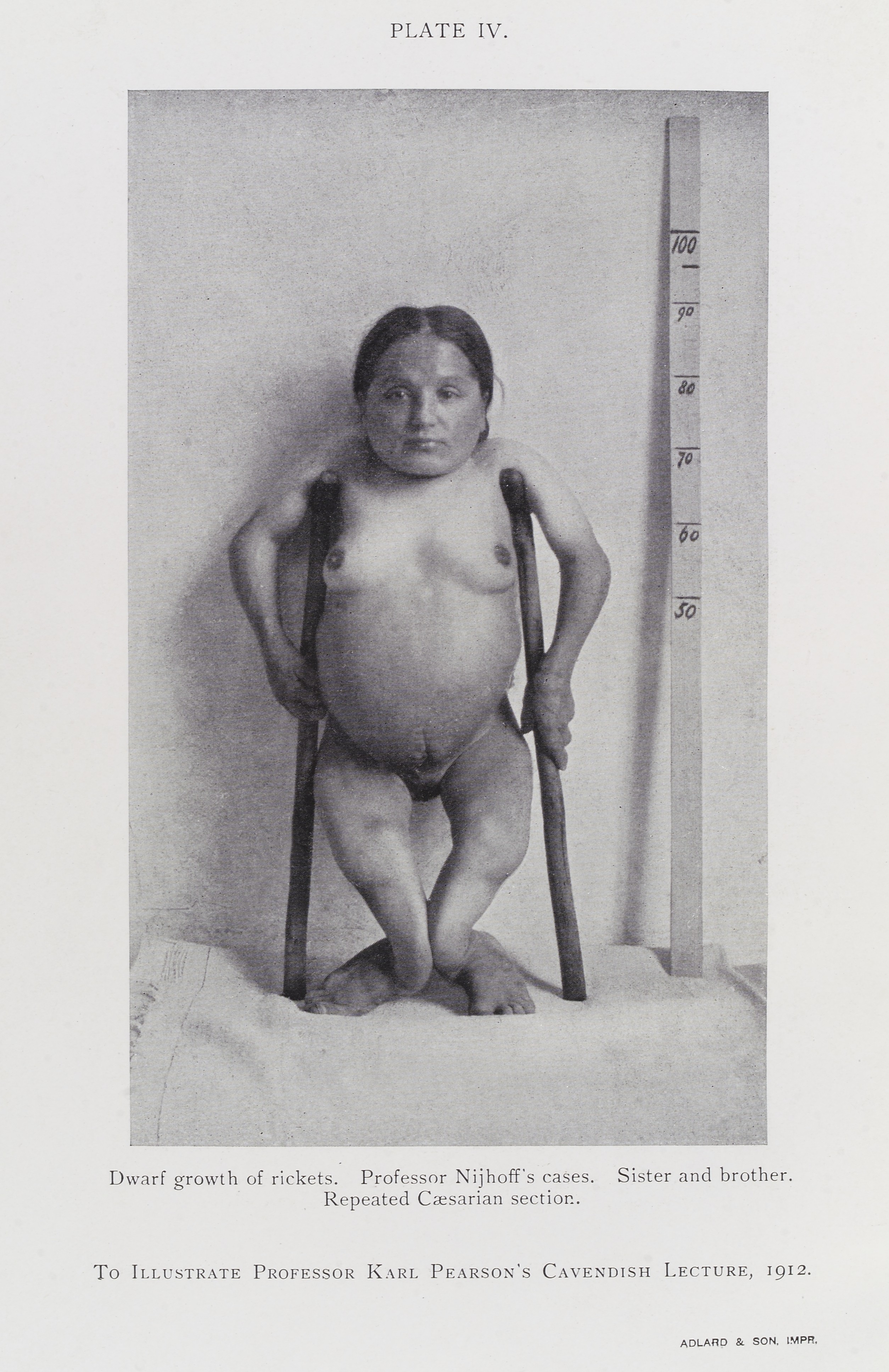 Photograph showing female dwarf, the result of rickets (vitamin D deficiency). Has had repeated caesarian sections. For a picture of her brother, see L0033872. General Collections Keywords: Vitamins; Caesarean; Diet; Eugenics; Rickets; Vitamin D; Dwarfism